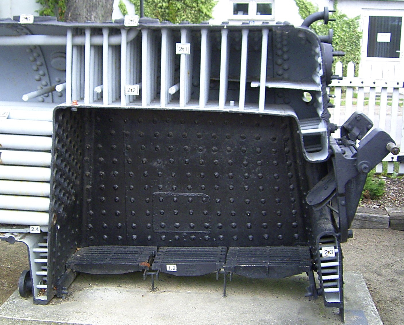 Back part from the model of a 1932 steam locomotive boiler, on display in the Molli Museum in the German town of Kühlungsborn at the Baltic Sea coast.